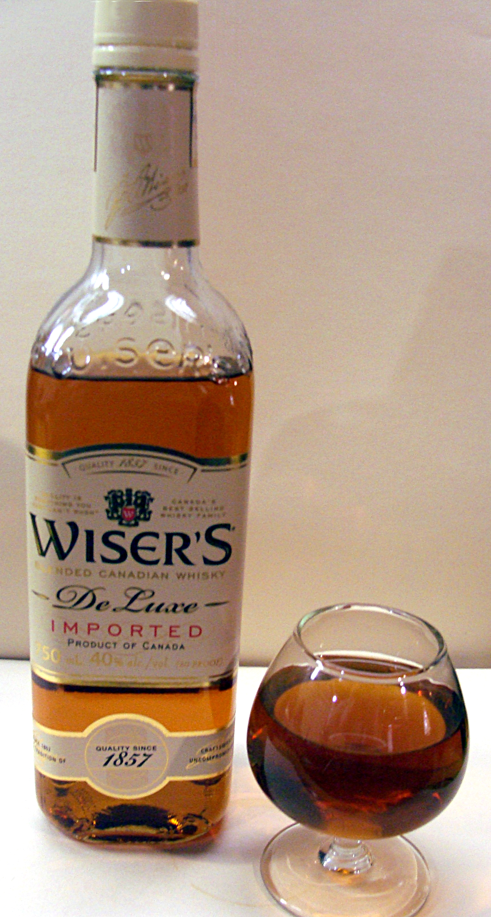 This is my own work. Photo by Craig Duncan. It is a photo of a bottle of bourbon from my own bourbon collection. Taken on 02/12/11 and uploaded on 02/13/11. It is FREE for others to use with no recourse.